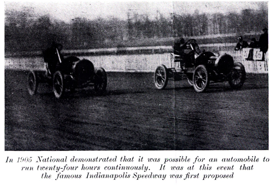 Public domain image of National Motor Vehicle Company stock cars running at the Indiana State Fairgrounds one-mile dirt oval on November 17, 1905. The drivers were W.F. "Jap" Clemens and 17-year-old Charlie Merz.